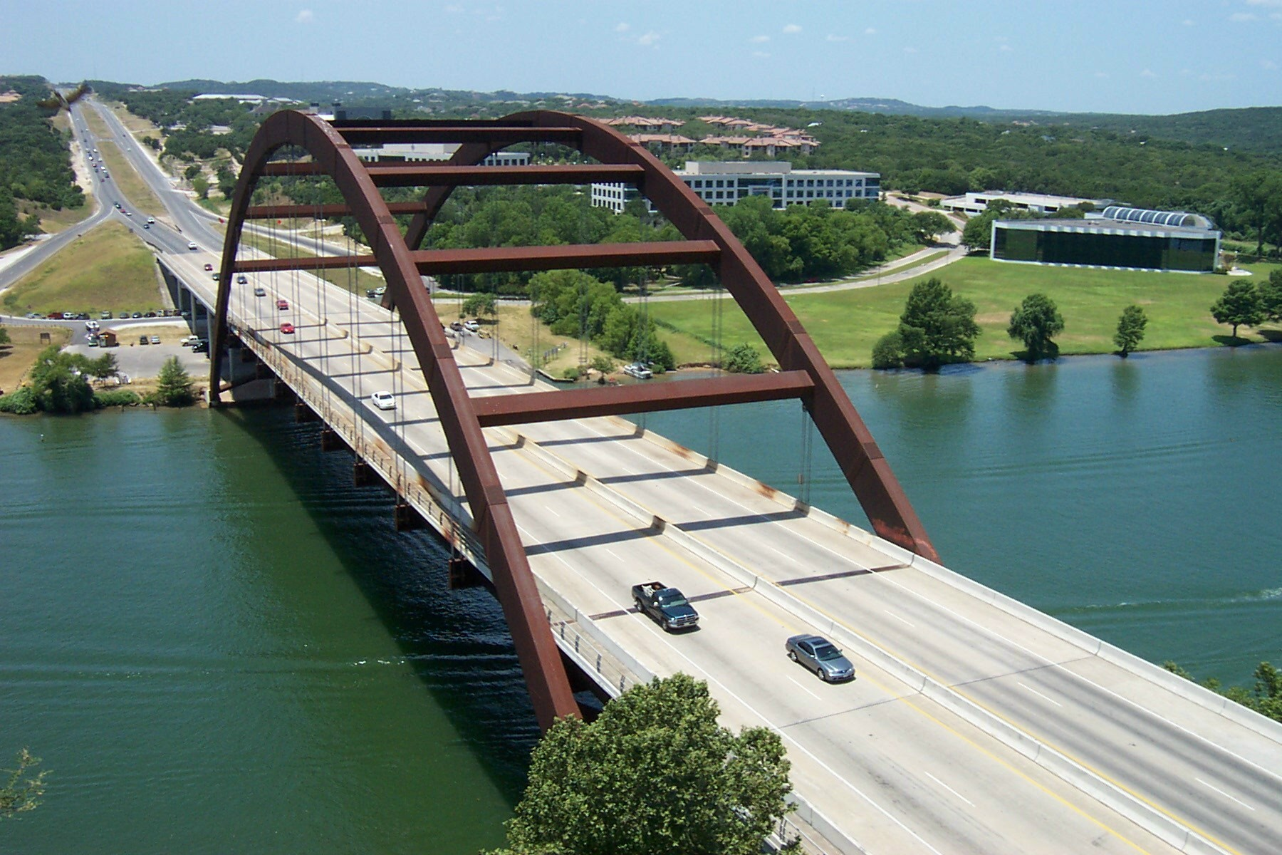 I took this picture of the Pennybacker Bridge in Austin, Texas. Anyone may use it for any purpose.